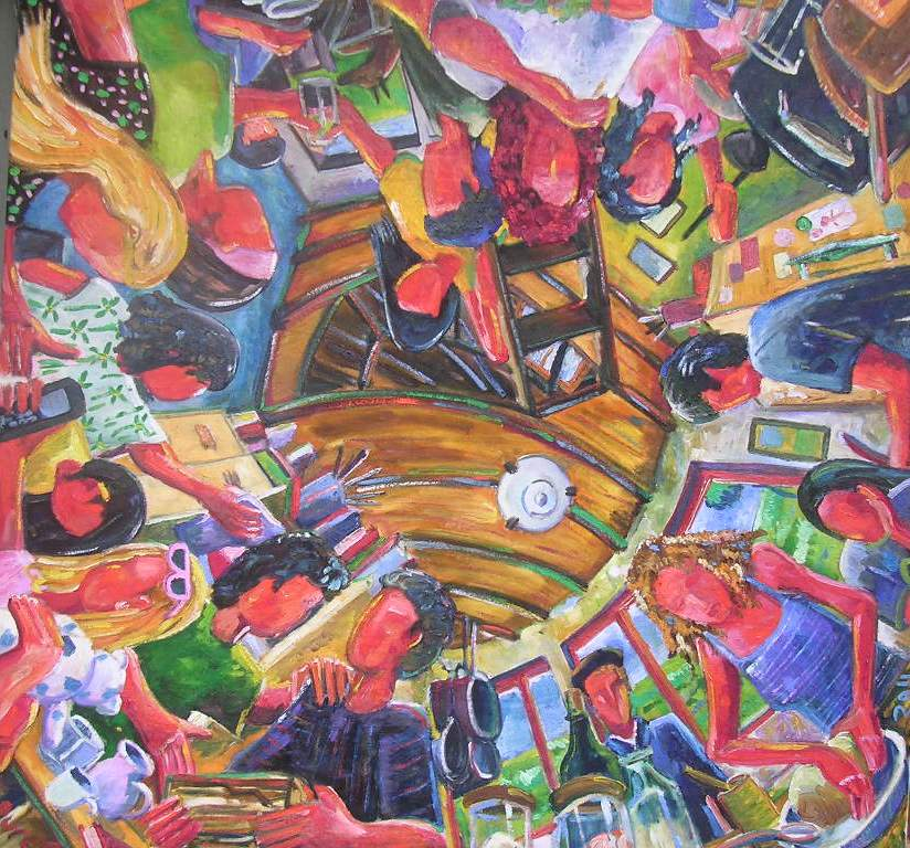 My dream